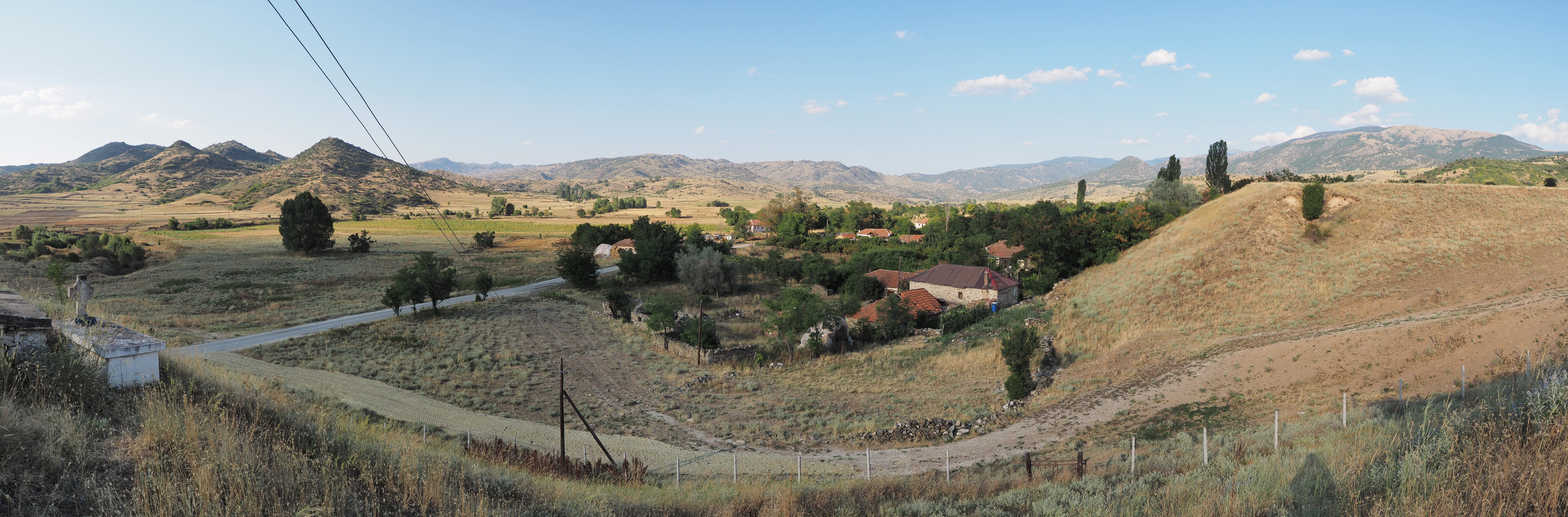 Village Dobroveni, Novaci Municipality, Macedonia